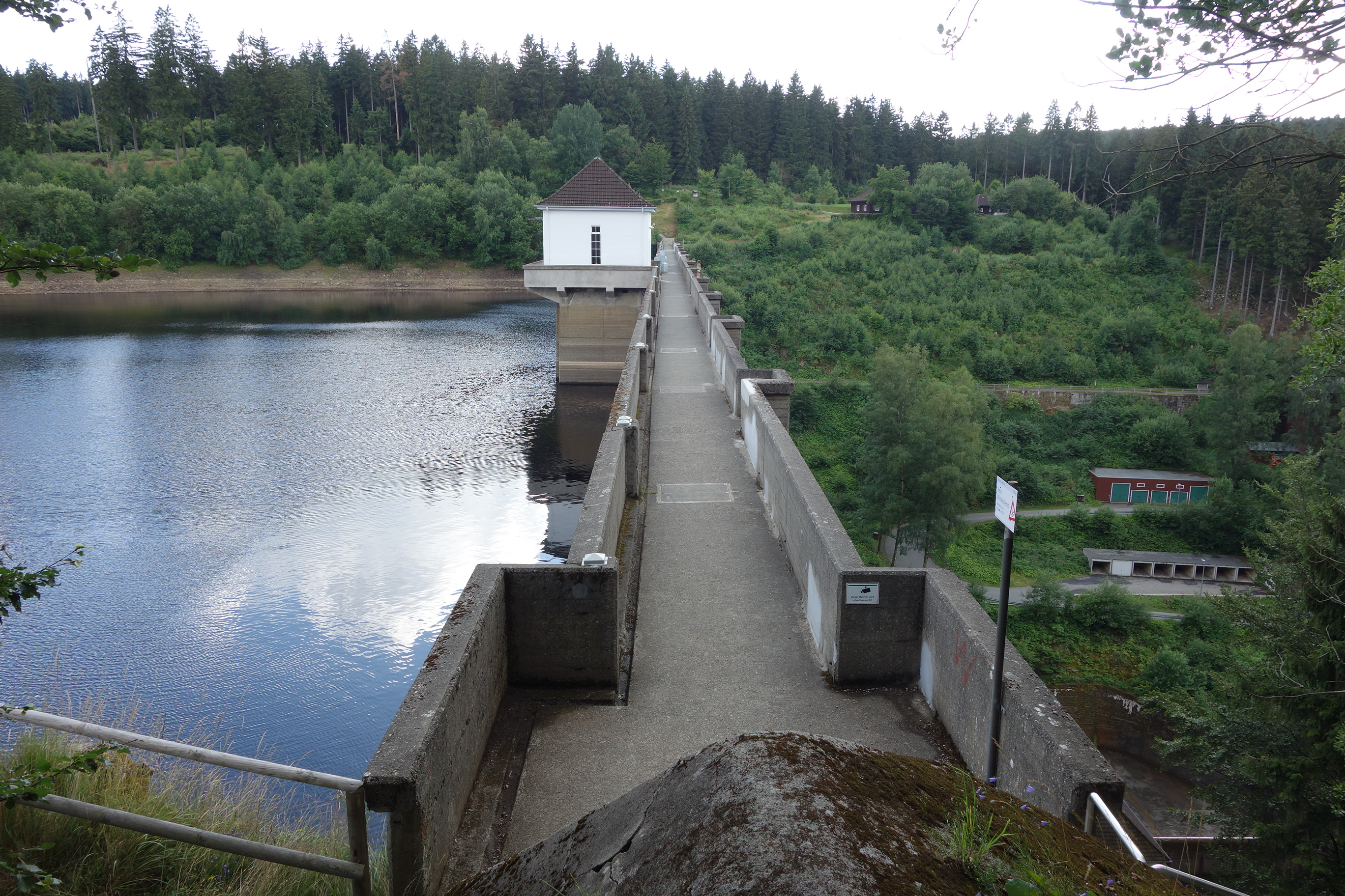 Ecker dam, Germany